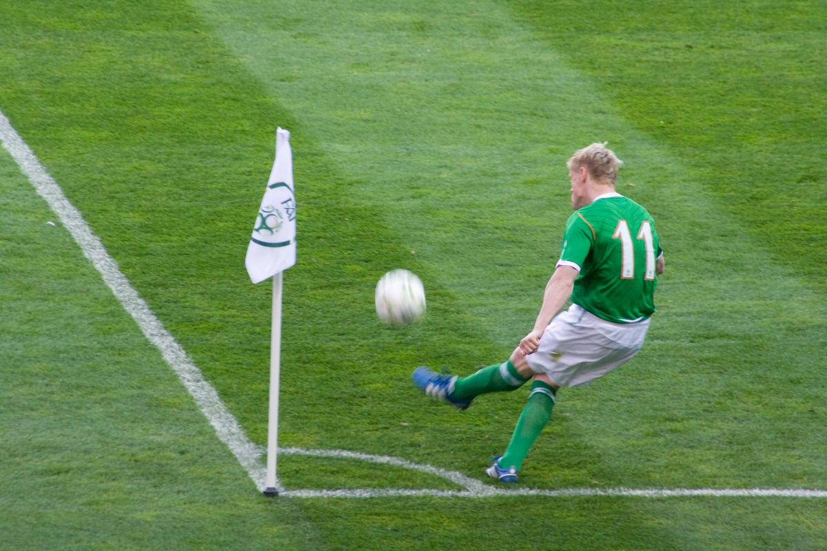 Irish footballer Damien Duff taking a corner versus Serbia. Image cropped from original at flickr.